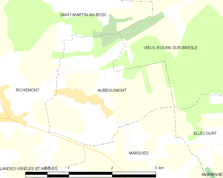 Map of French municipality Aubéguimont